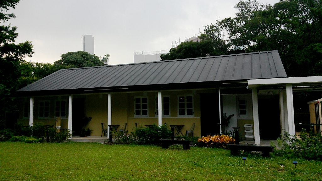 The Green Hub - Canteen Block